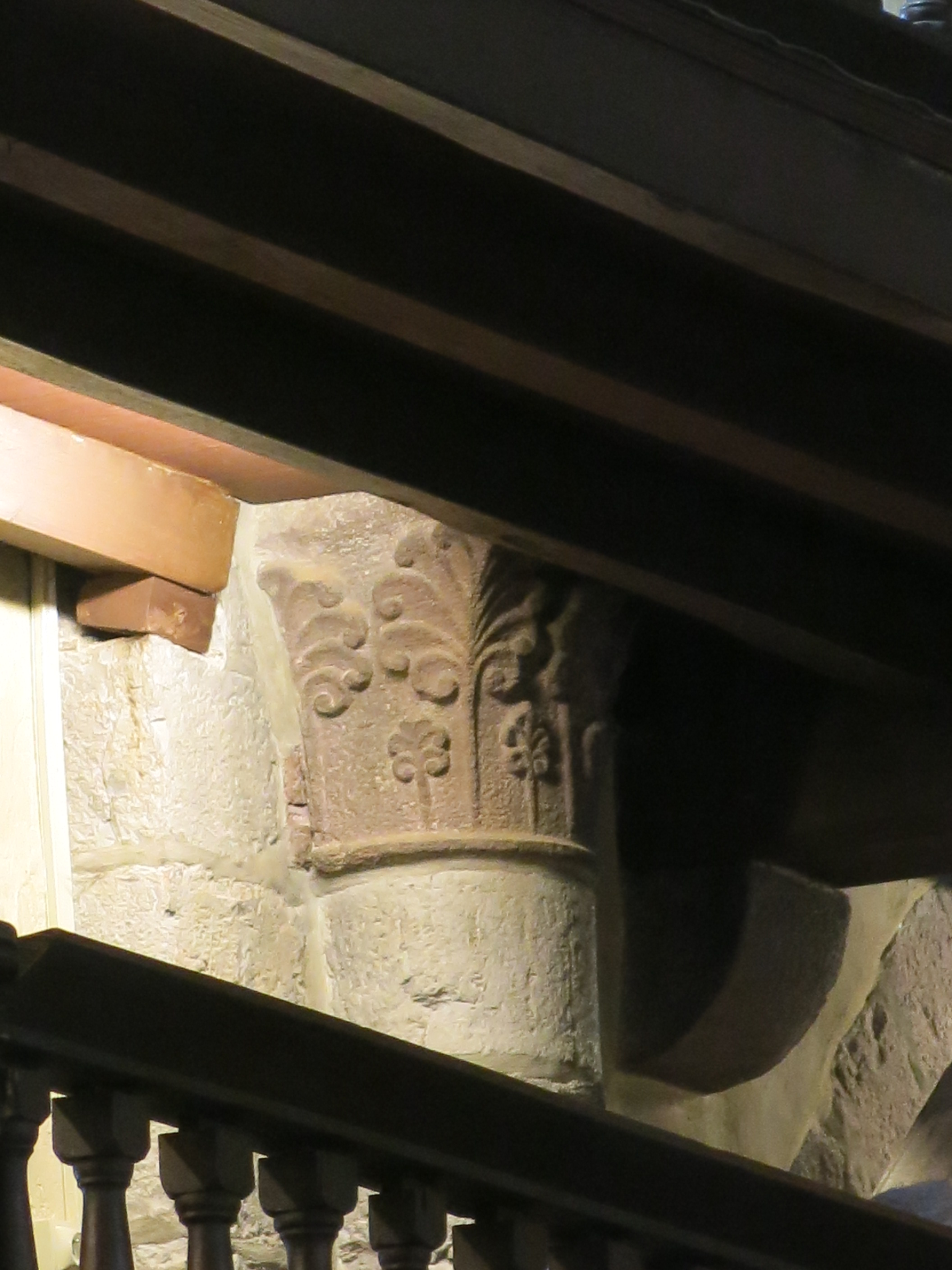 Capital of roman column reused in the church Saint-Étienne-de-Baïgorry (Pyrénées-Atlantiques, France).